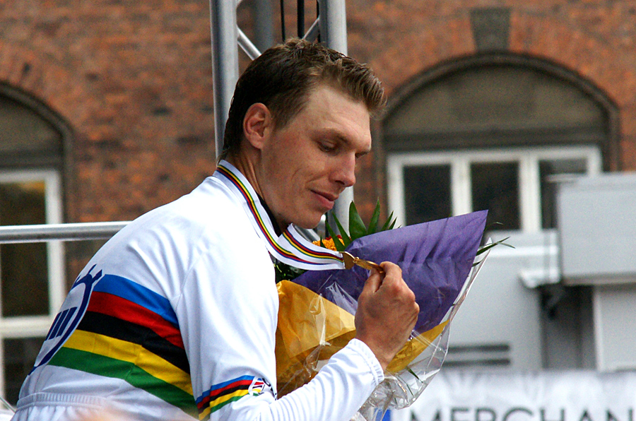 2011 UCI Road World Championships – Men's time trial - Tony Martin, Germany - winner of gold medal and new world champion 2011